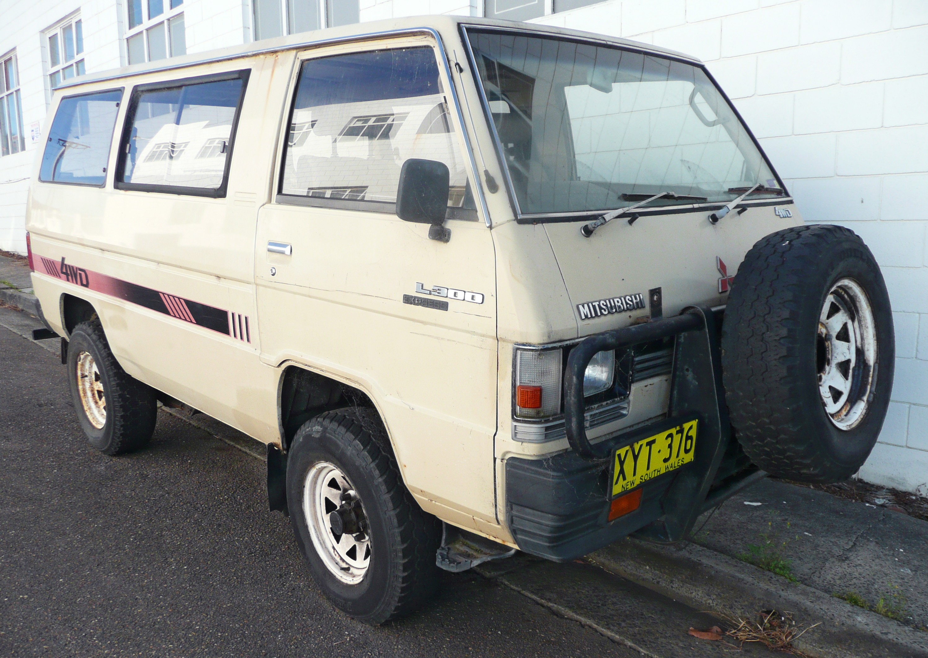 1985 Mitsubishi L300 Express (SD) 4WD van. Photographed in Kirrawee, New South Wales, Australia.